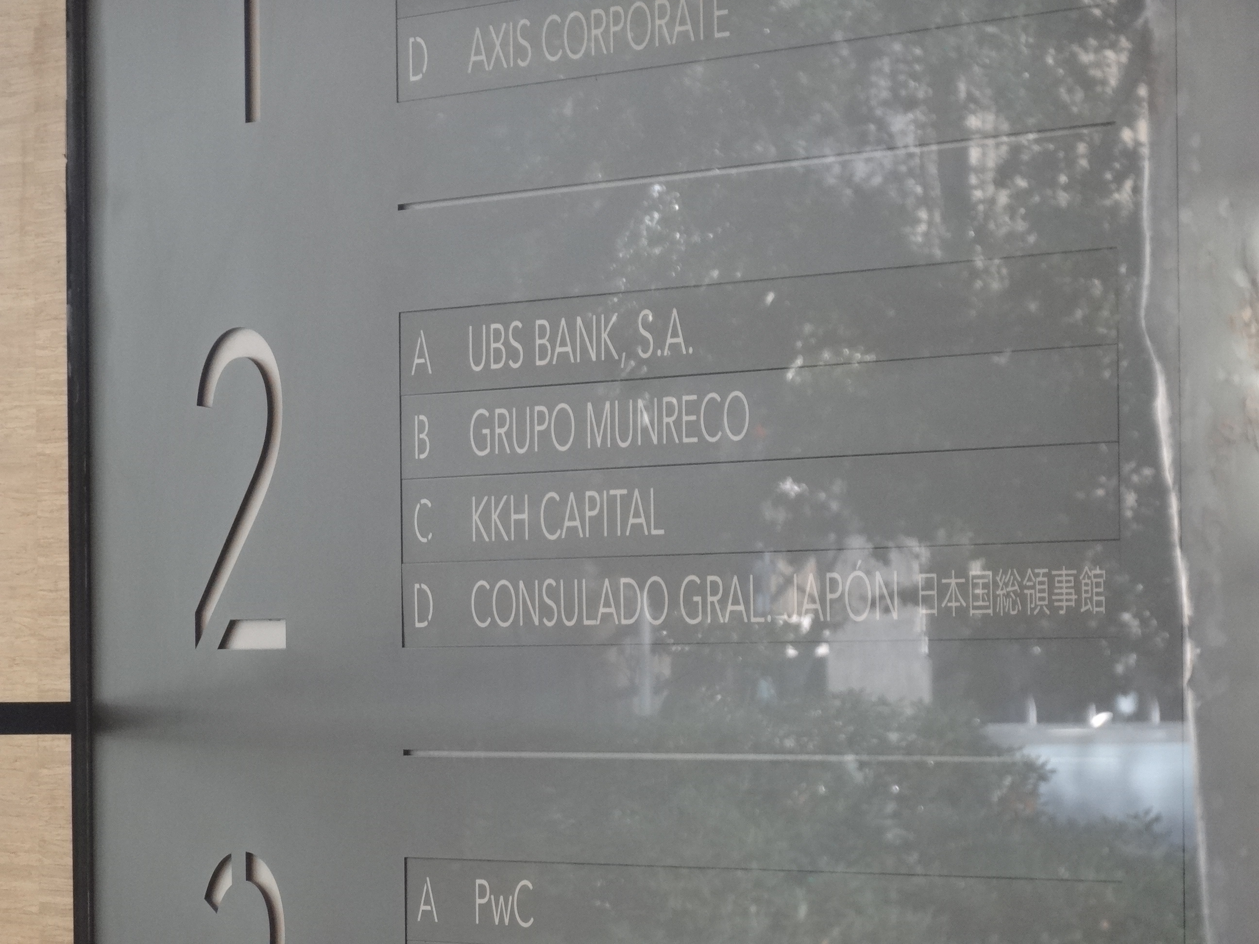 Japanese Consulate, Barcelona (Av Diagonal 640)